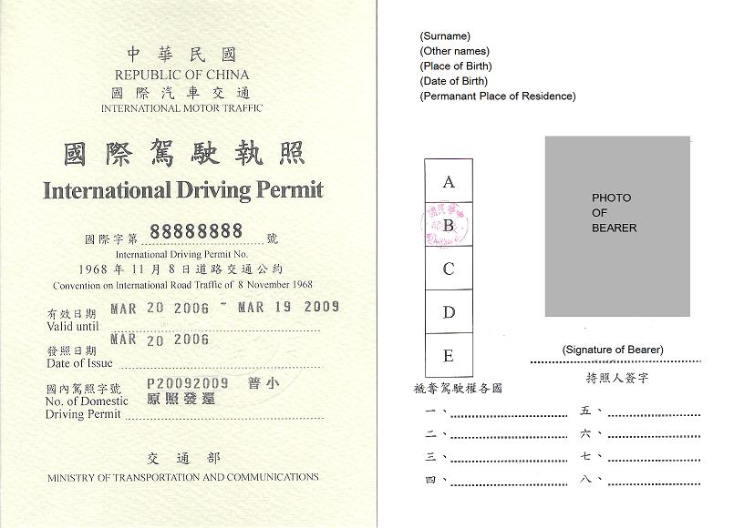 An International Driving Permit (IDP) issued by Ministry of Transportation and Communications, Republic of China and its bearer's information page. Date of issue: March 20th, 2006.